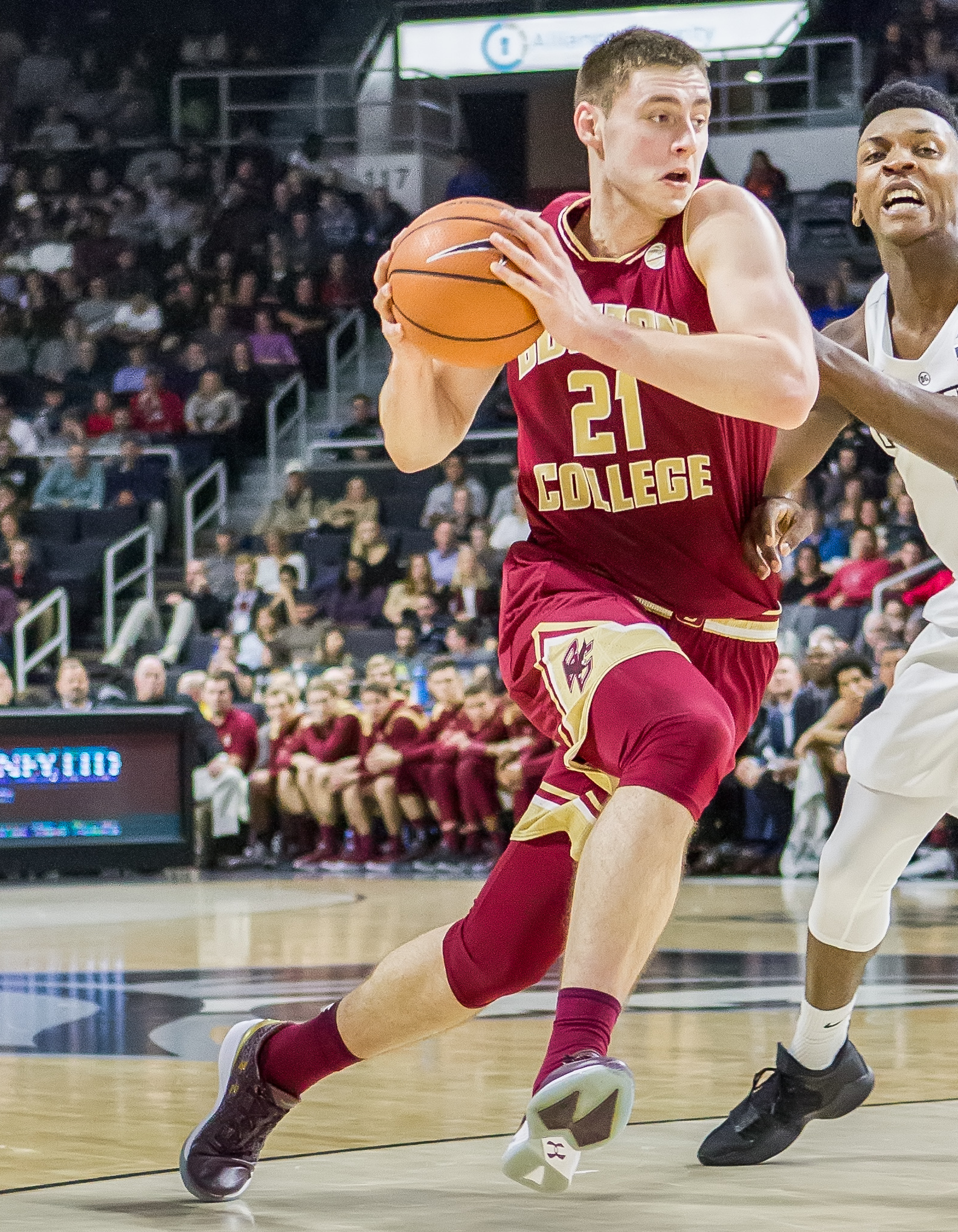 November 25, 2017. The Dunkin' Donuts Center, Providence, RI. Photo: ©KJ Sports Pics